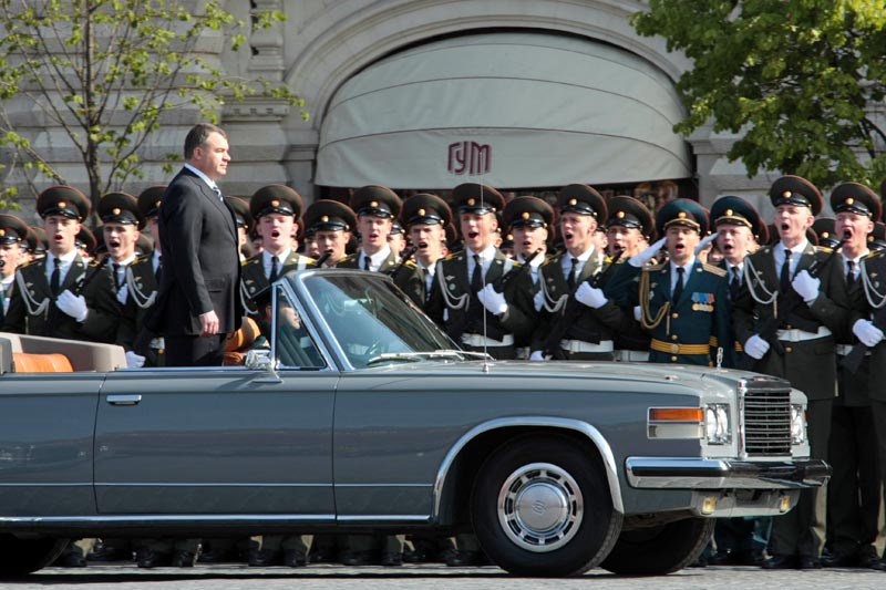 Anatoliy Serdyukov commands May 9 miltary parade on the Red Square